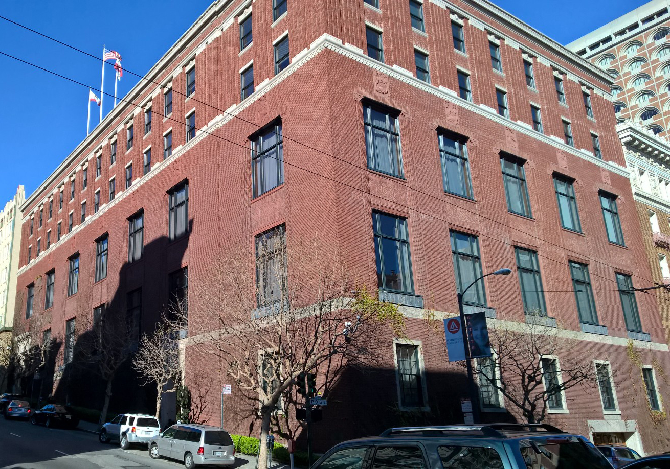 The Bohemian Club in San Francisco, viewed from the corner of Post Street and Taylor Street.